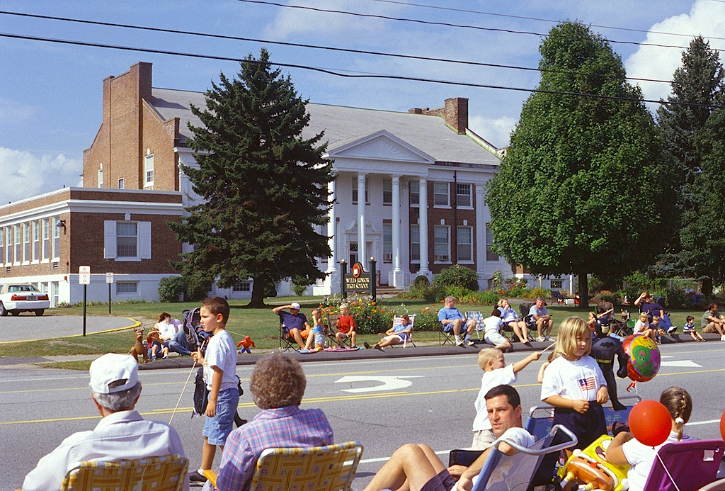 Wells Junior High School in Wells, Maine. This building was constructed in 1937 as the third Wells High School; it became Wells Junior High School in 1977. It is located at 1470 Post Road (US-1). This photograph was taken during a parade celebrating the 350th anniversary of the incorporation of the town of Wells.